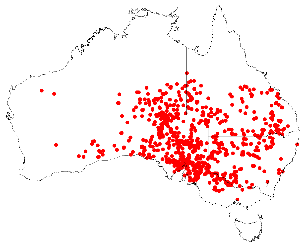 Rhagodia spinescens occurrence data downloaded from Australasian Virtual Herbarium on July 7, 2018